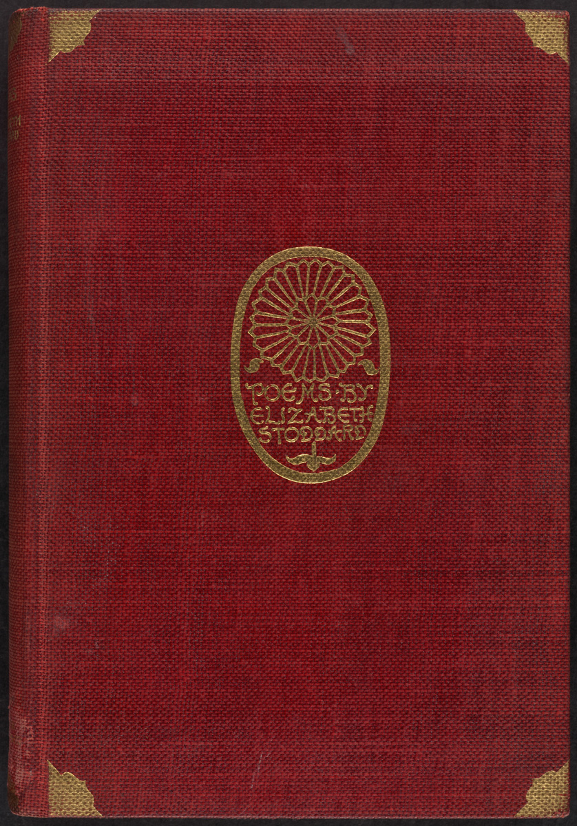 File name: 06_04_000175Title: STODDARD(1895) PoemsDate issued: 1895Genre: Book coversNotes: Stoddard, Elizabeth, 1823-1902 (Author)Collection: Sarah Wyman Whitman BindingsLocation: Boston Public Library, Special CollectionsRights: No known copyright restrictions.